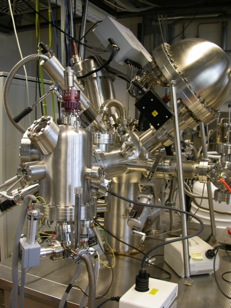 Vacuum chamber for XPS analysis, with hemispherical analyzer and X-ray tube